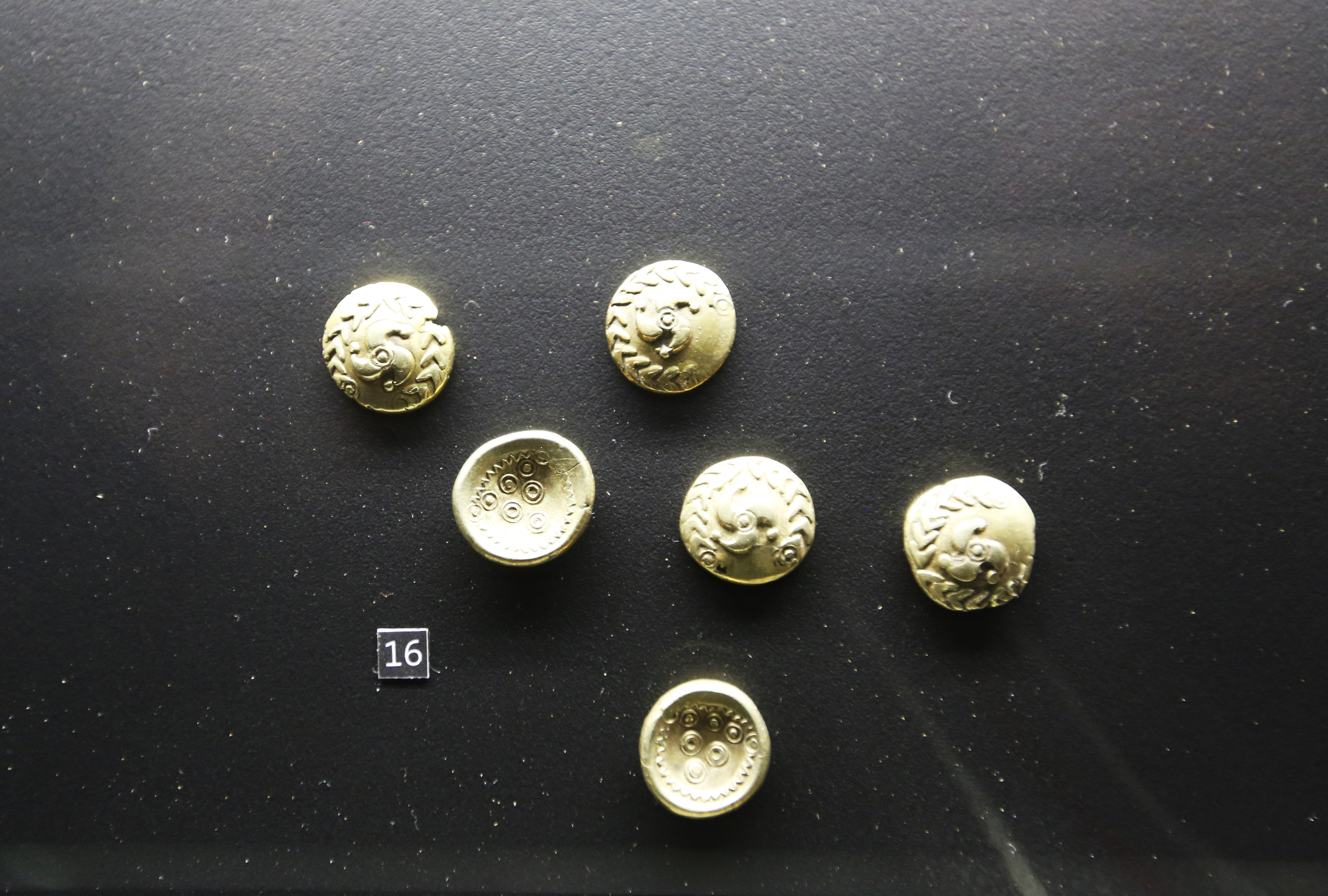 Celtic golden coins from Stieldorf